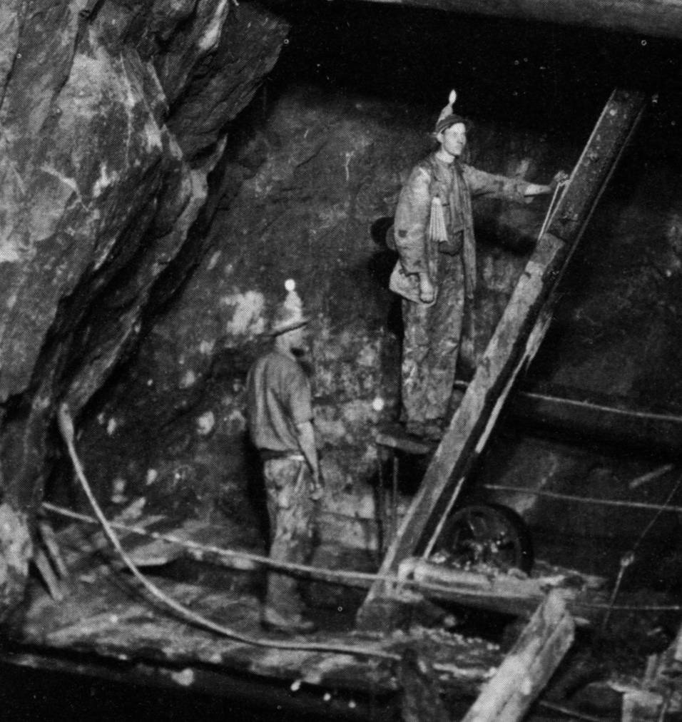 A flash photograph of the Man engine at Dolcoath Mine, Cornwall. Photographer was John Charles Burrow (1852—1918), 38 Trelowarren Street, Camborne, assisted by William Thomas, lecturer at the Camborne School of Mines. Publisher: Simpkin Marshall, London.